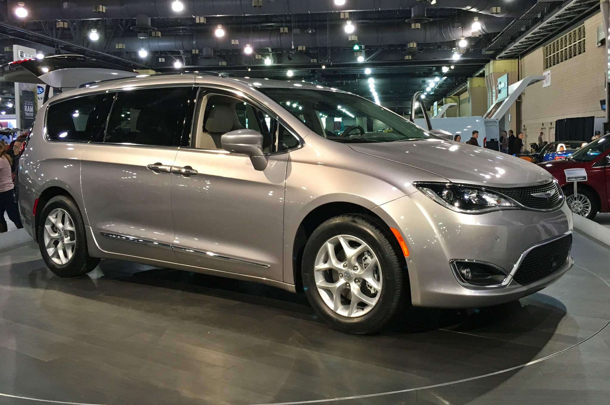 2017 Chrysler Pacifica